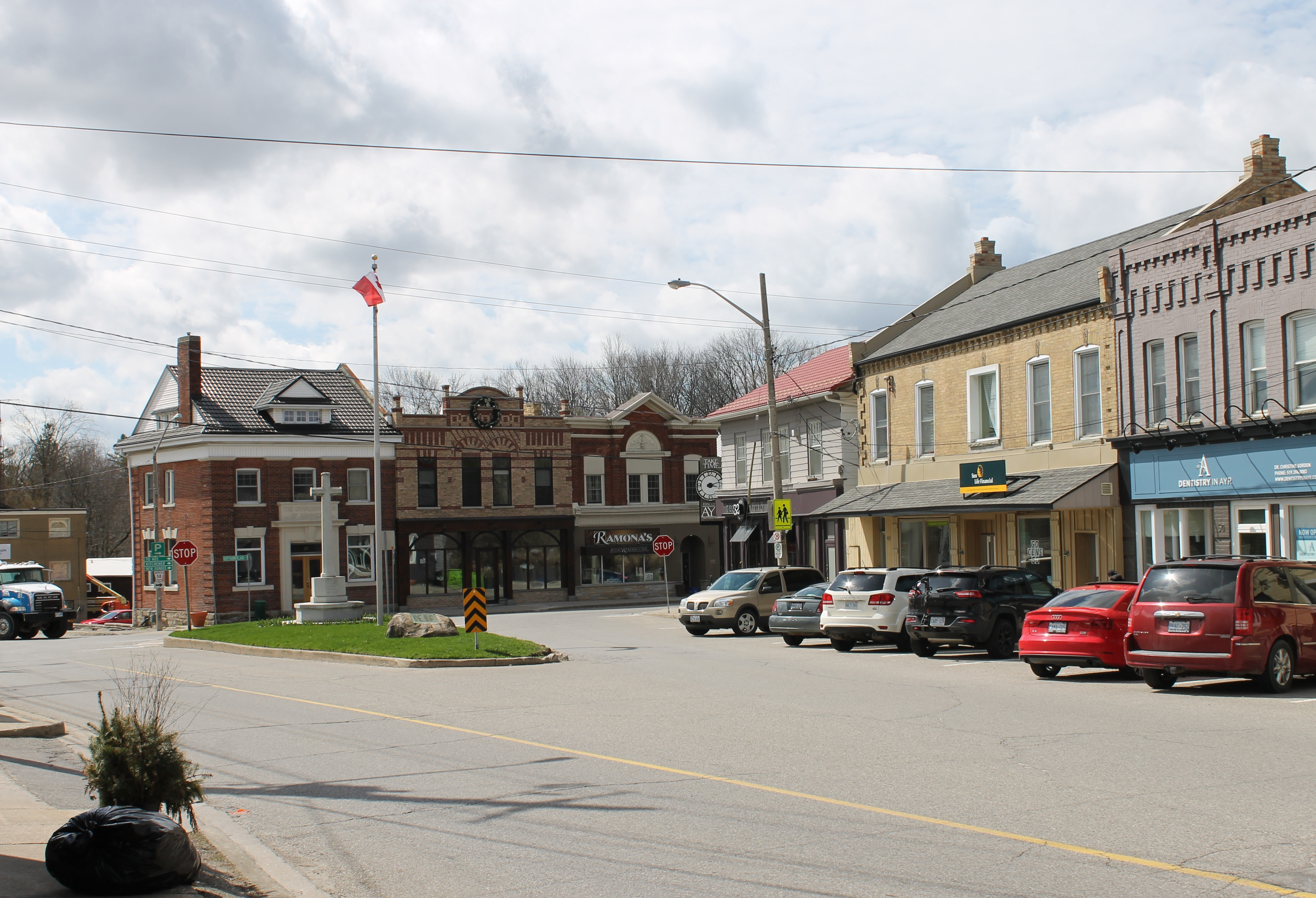 Photograph of downtown Ayr, Waterloo Region, Ontario, Canada